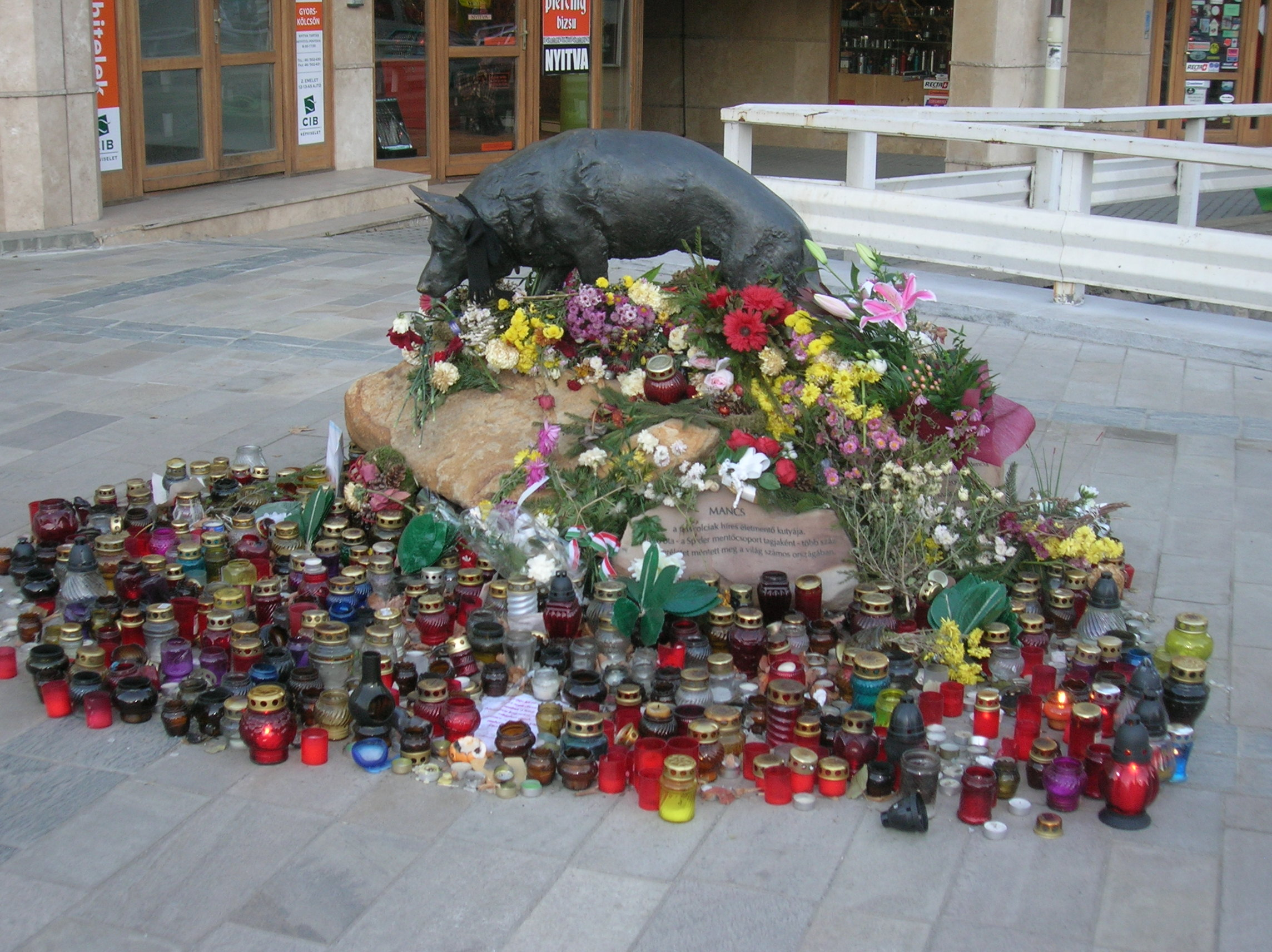 Statue of Mancs, the Hungarian rescue dog. Nearly three weeks after his death his statue is still surrounded by candles.